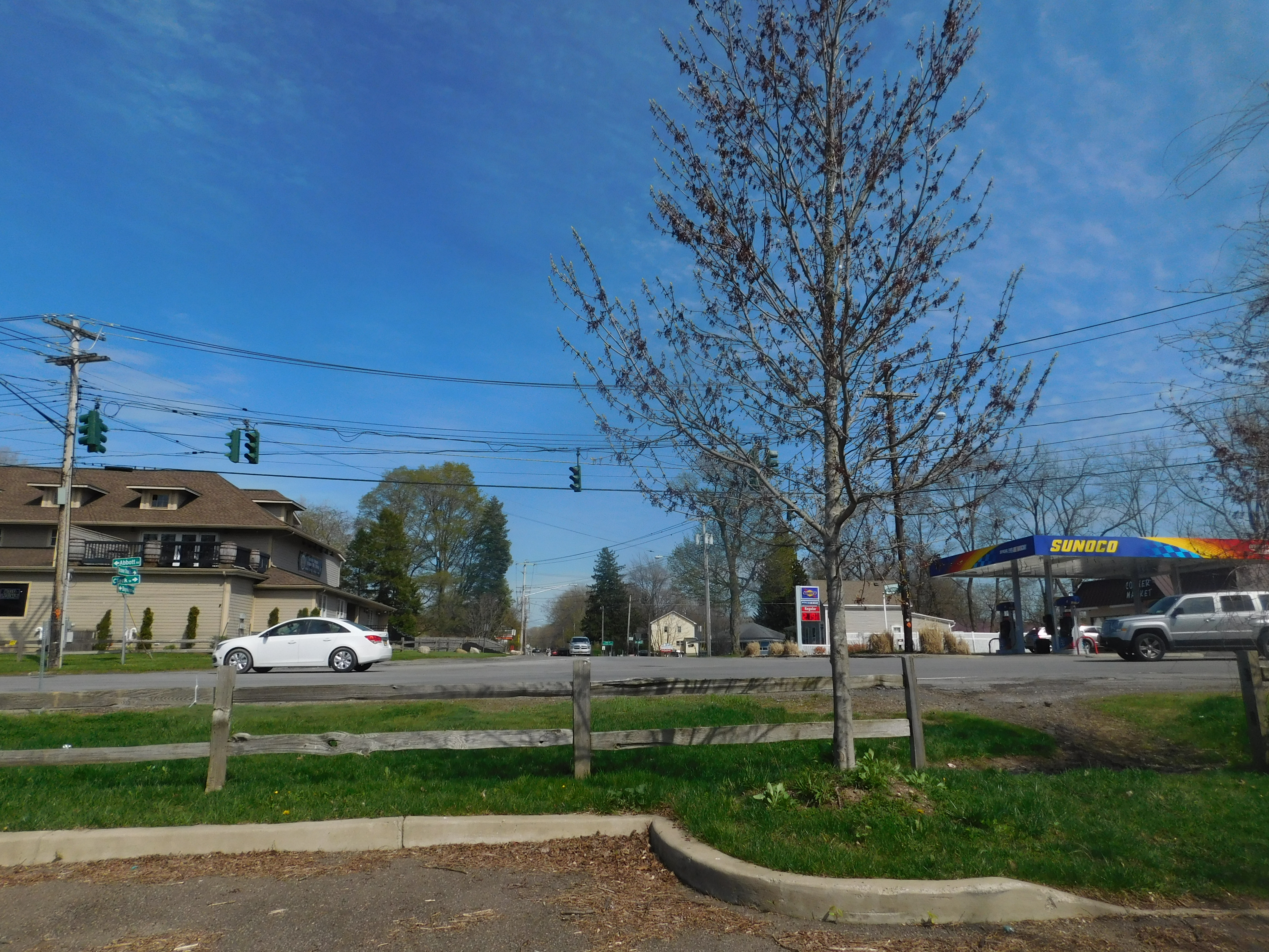 County Route 44 in the hamlet of Armor, New York.